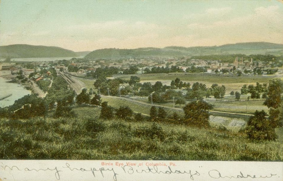 Postcard picture of "bird's eye view" of Columbia, Pennsylvania; address side of card shown states it was published by "The American News Co., New York, Leipzig, Berlin and Dresden"; address side also states "Litho-Chrome" and "Germany"